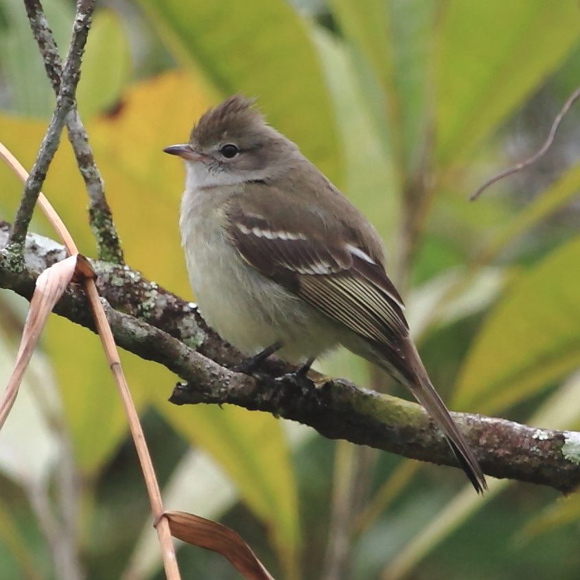 Yellow-bellied Elaenia at Bertioga - SP - Brazil